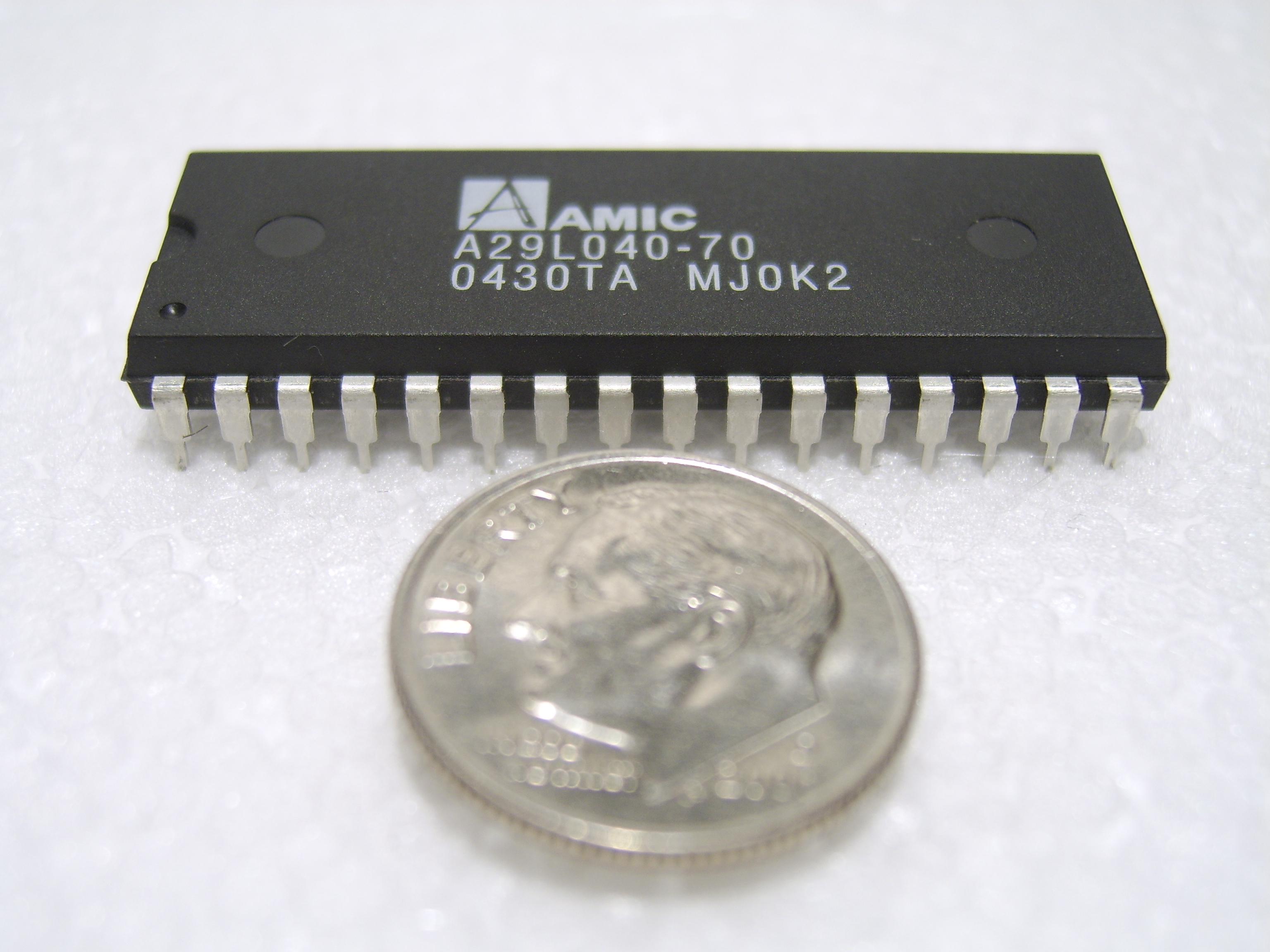 Photograph of an AMIC EEPROM 512KB 8 bit 32-pin memory chip, removed from a DVD player.